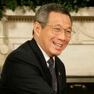 Prime Minister Lee Hsien Loong of Singapore to meet with US President George W. Bush at the Oval Office Friday, May 4, 2007.